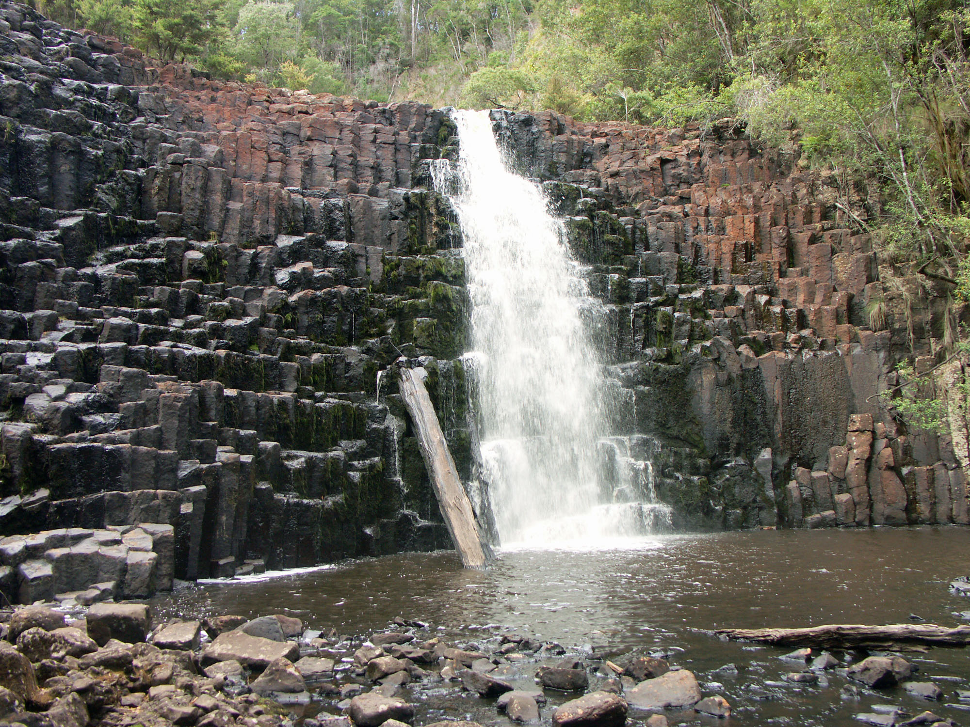 Dip Falls, near Stanley - Tasmania - Australia